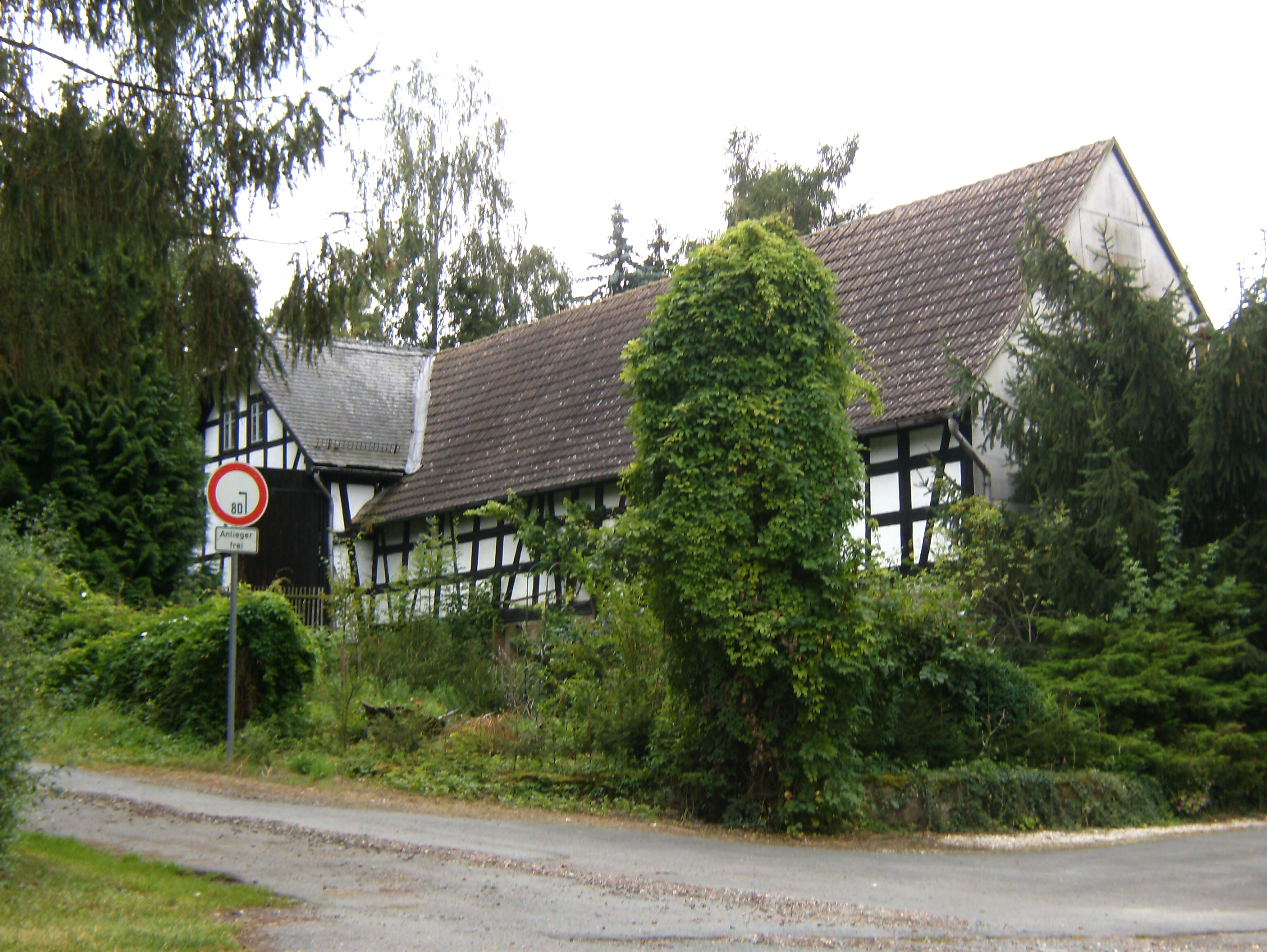 Lengefeld, in the village.